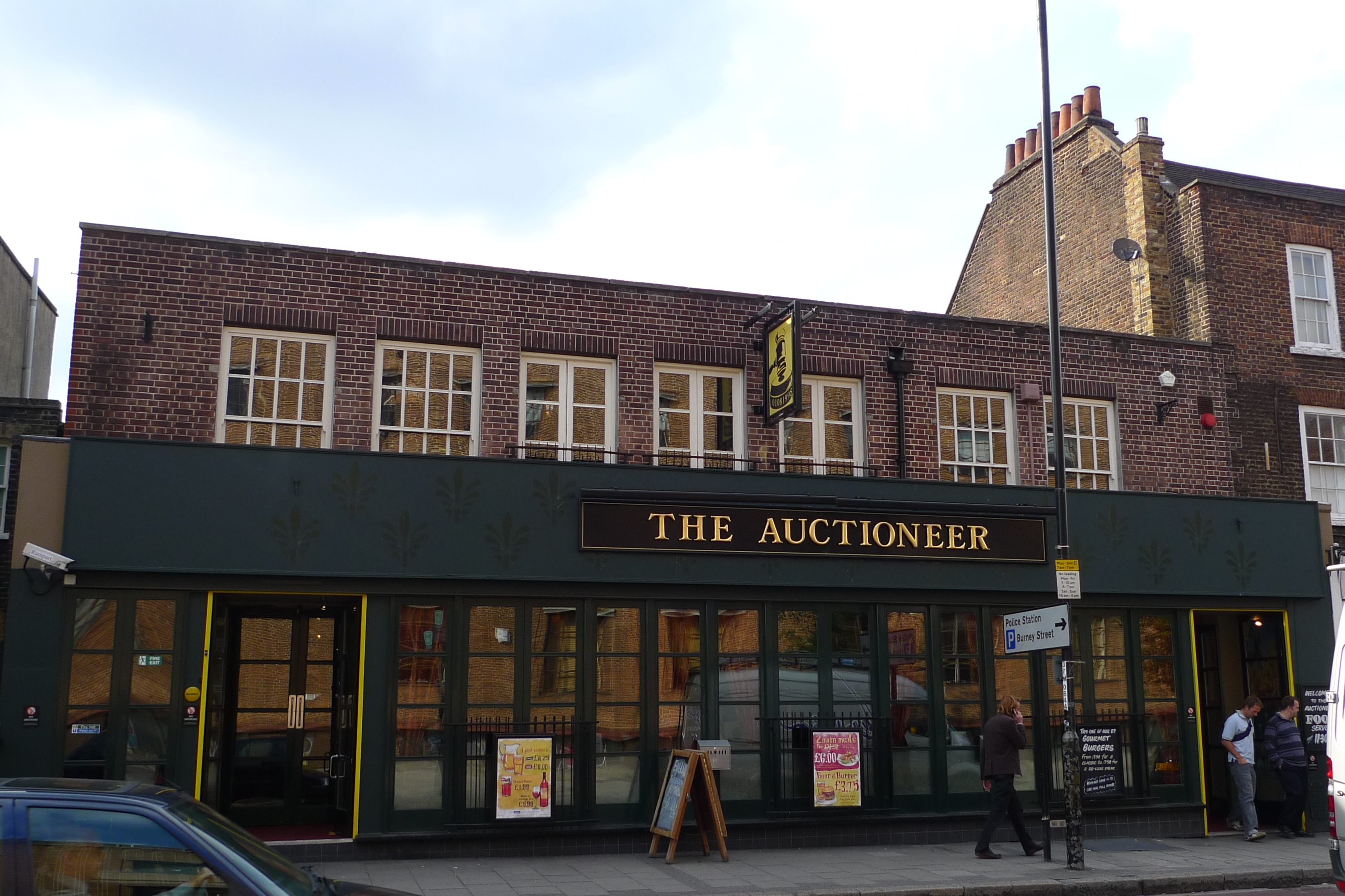 Undistinguished looking place not far from Greenwich station, since refurbished and renamed The Lost Hour. Address: 217-219 Greenwich High Road. Owner: Stonegate Pub Company (website and Stonegate website); Mitchells and Butlers [Scream] (former). Links: Fancyapint Beer in the Evening